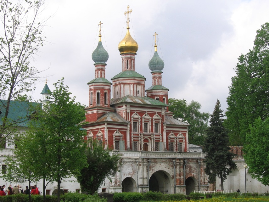 Novodevichy Convent